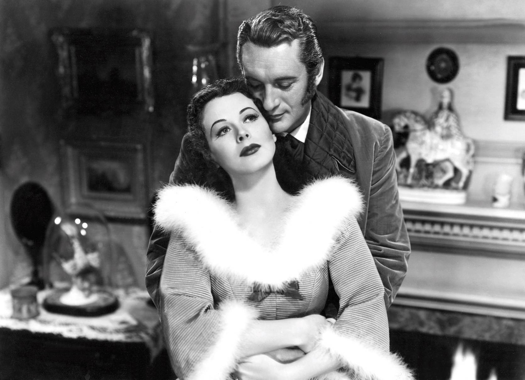 Hedy Lamarr & George Sanders in The Strange Woman - cropped screenshot